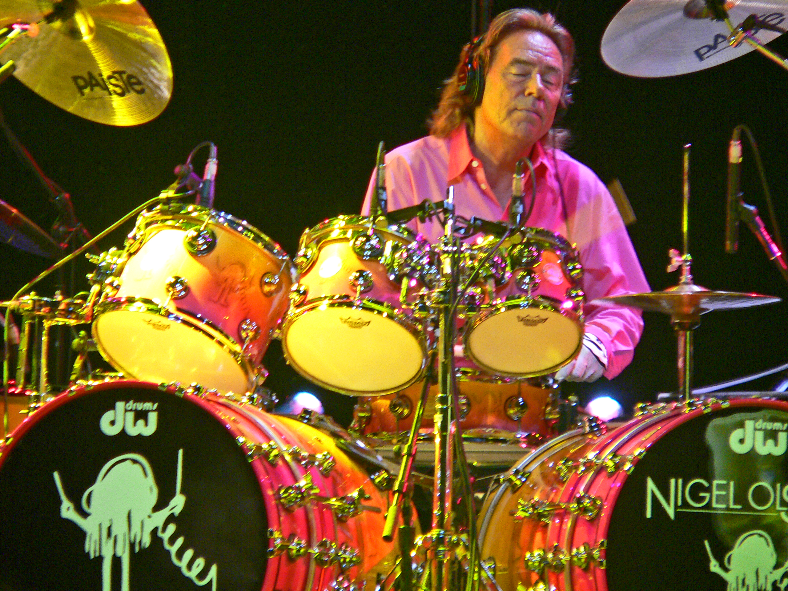 Nigel Olsson ~ Long time drummer with Elton John BJCC, Alabama ~ May 2007